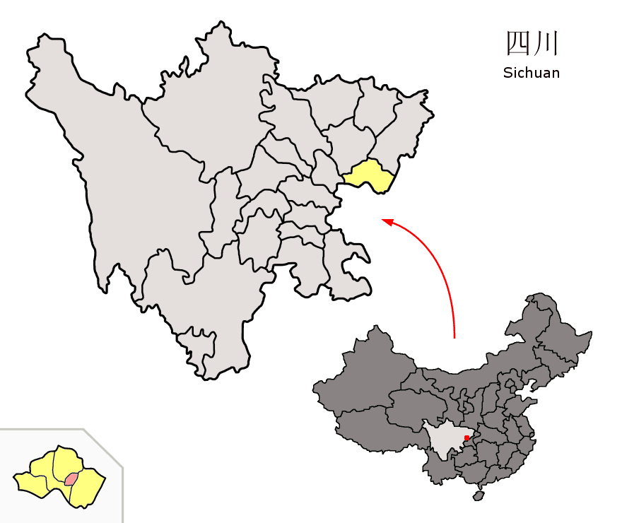 Location of Huaying City (pink) and Guang'an Prefecture (yellow) within Sichuan province of China Map drawn in october 2007 using various sources, mainly : Sichuan province administrative regions GIS data: 1:1M, County level, 1990 Sichuan Counties map from